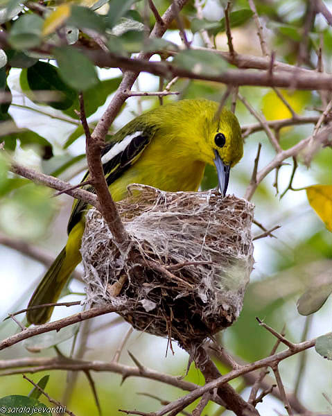 Female on nest